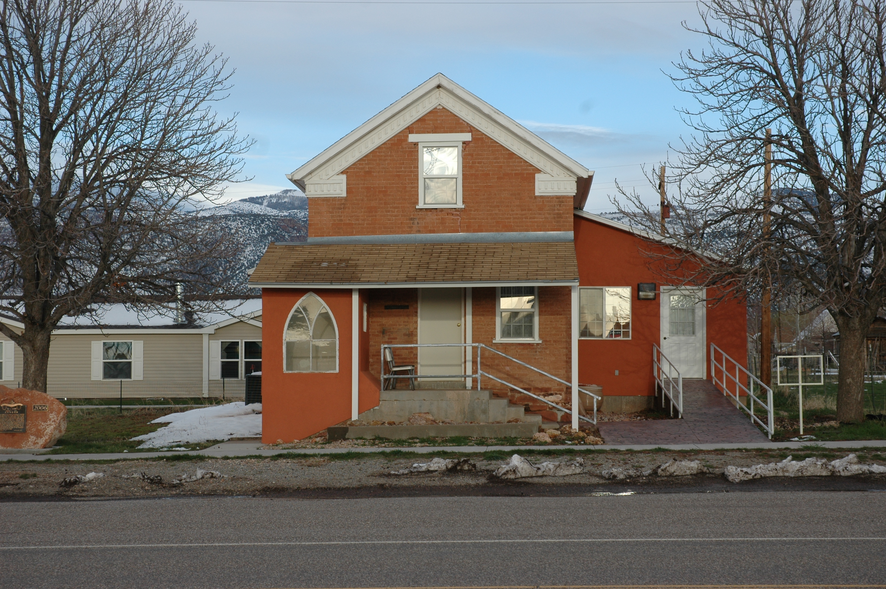 The Kanosh Tithing Office, a historic building in Kanosh, Utah, United States.